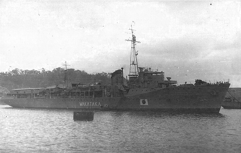 HIJMS Wakataka